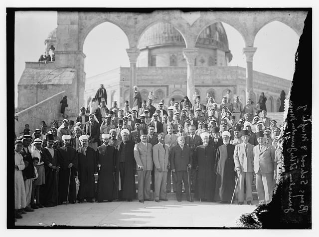 Boys school and Mufti of Jerusalem at the Jerusalem Mosque